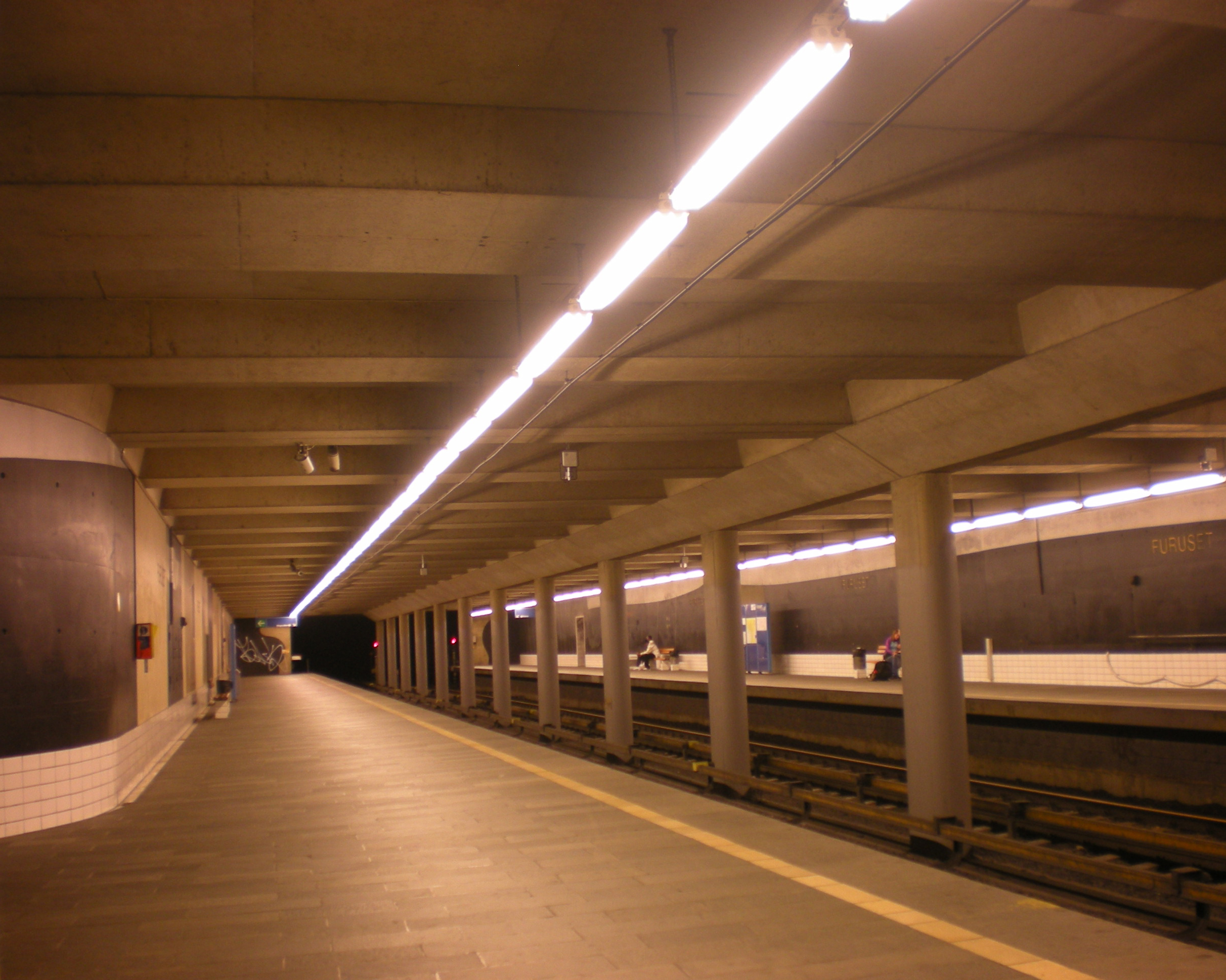 Bilde av Furuset t-banestasjon.